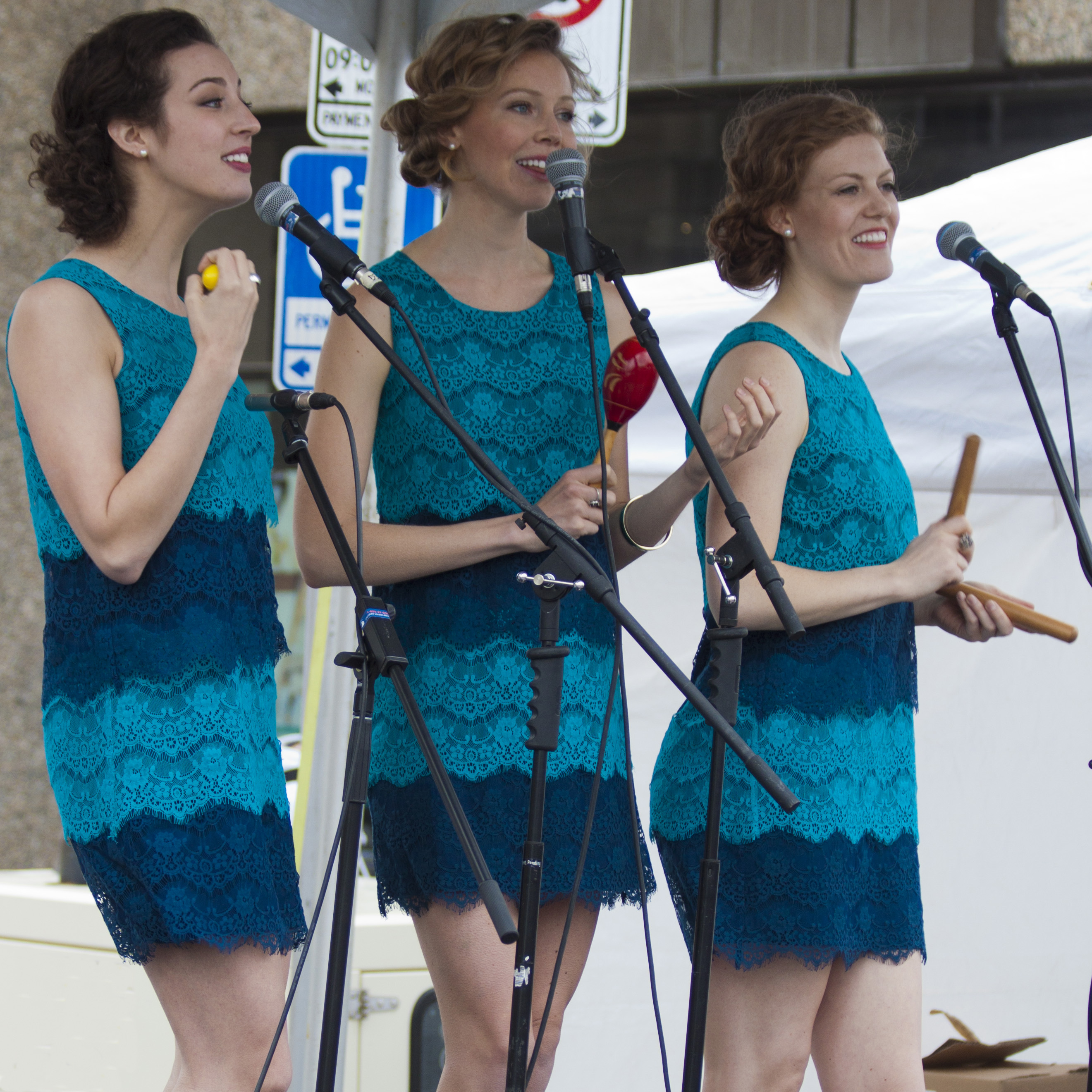 The Willows trio performing at the Lilac Festival in Calgary, Alberta, Canada on May 25, 2014. All three members are seen: Andrea Gregorio, Lauren Pedersen, Kristy Deady.